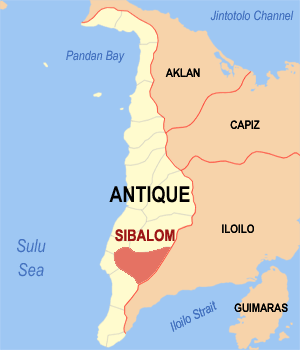 Map of Antique showing the location of Sibalom